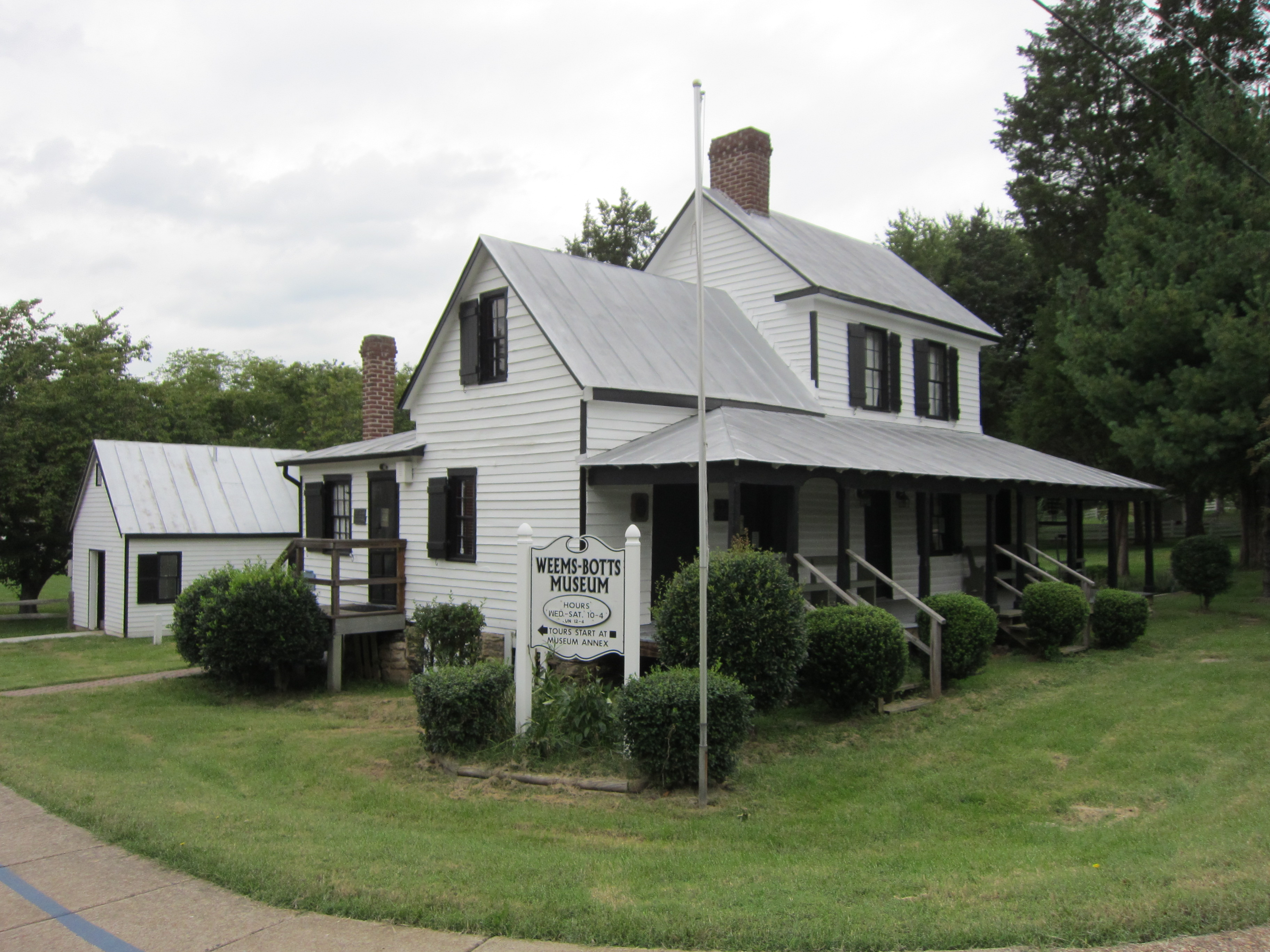 Weems-Botts House located on the corner of Duke Street and Cameron Street, Dumfries, Virginia. This house is part of the Weems–Botts Museum.